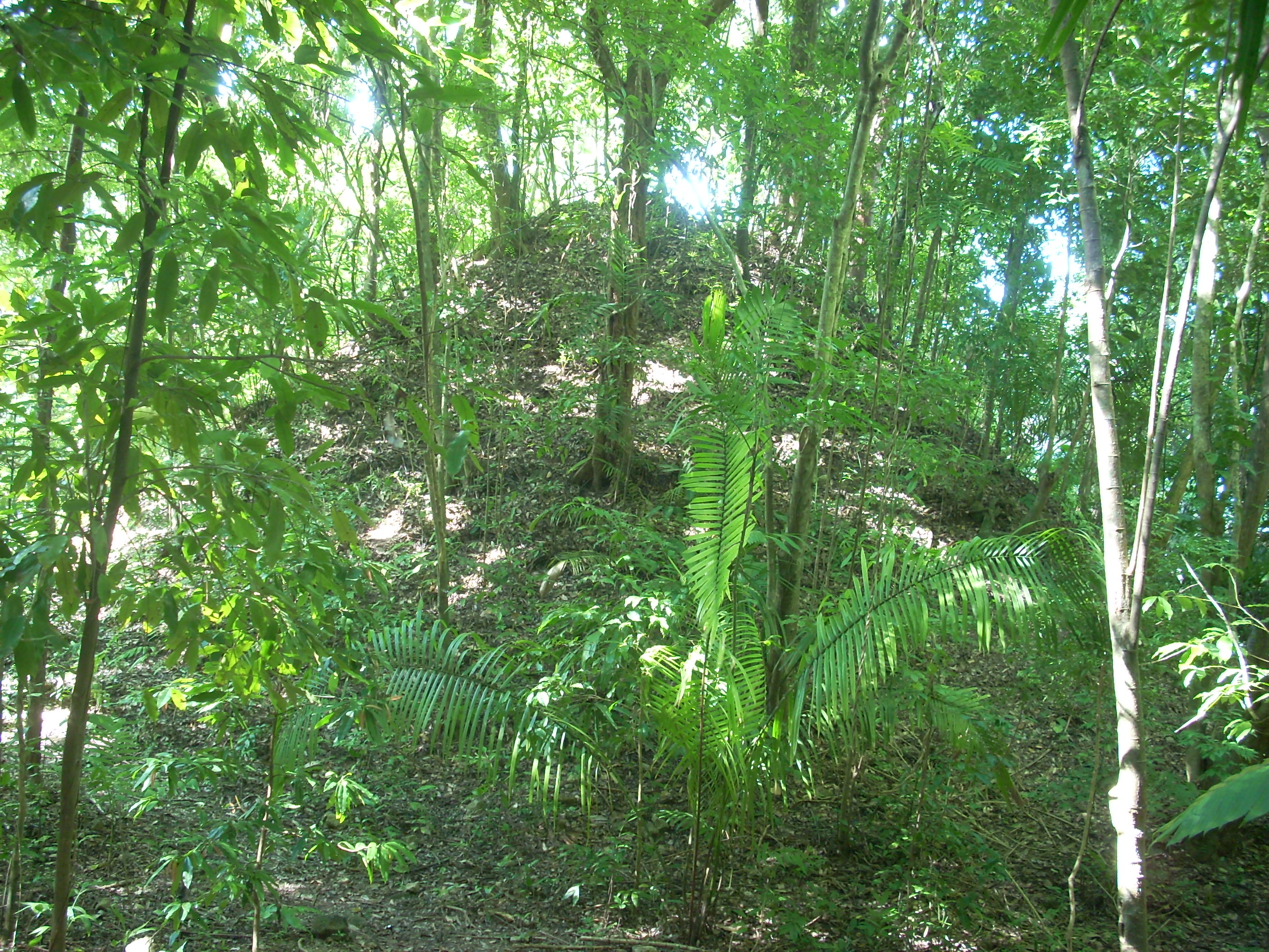 Unexcavated Maya pyramid on a basal platform at El Chal, Peten, Guatemala.